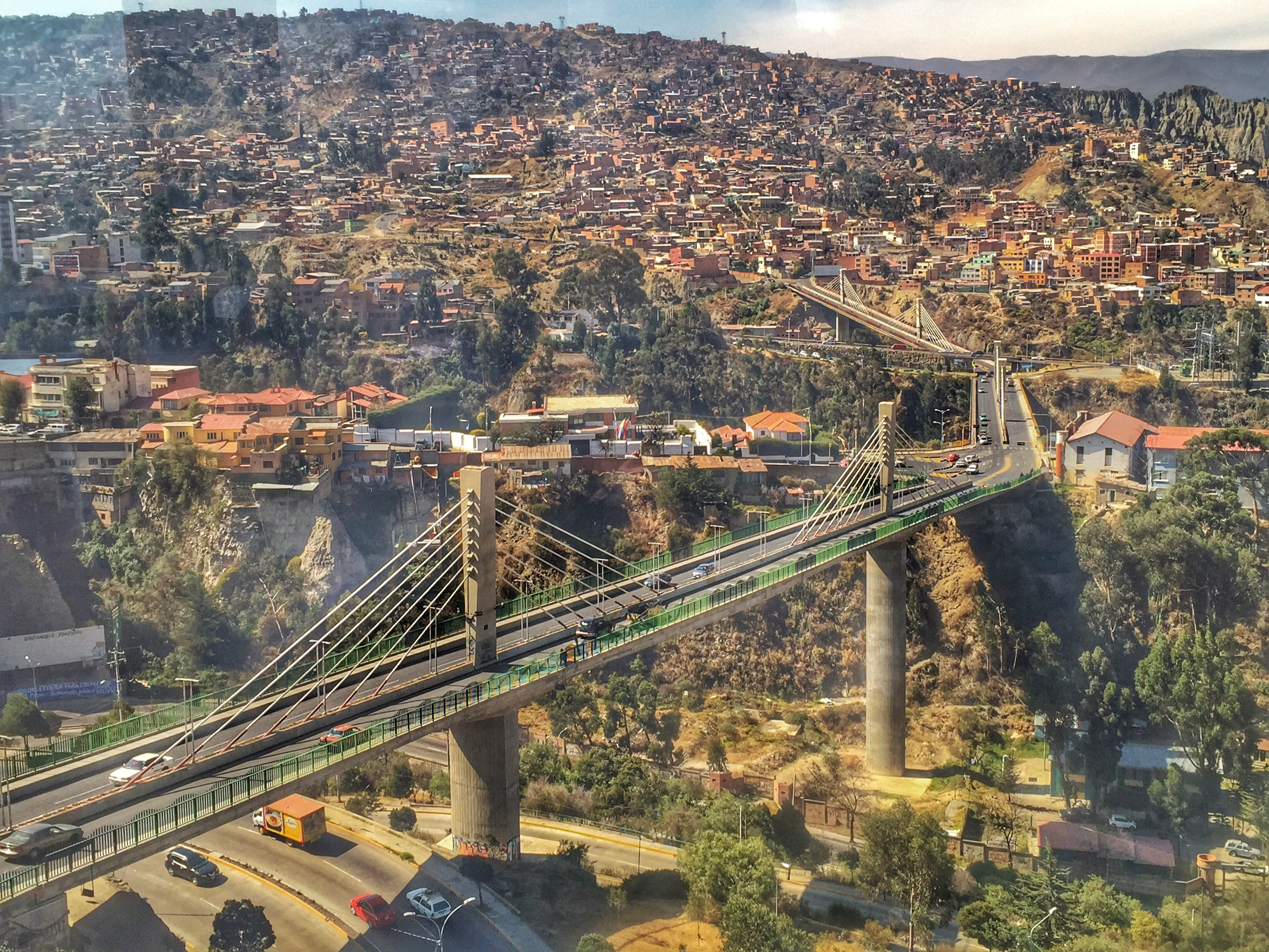 Puentes Trillizos (Triplet Bridges) in the city of La Paz, Bolivia.